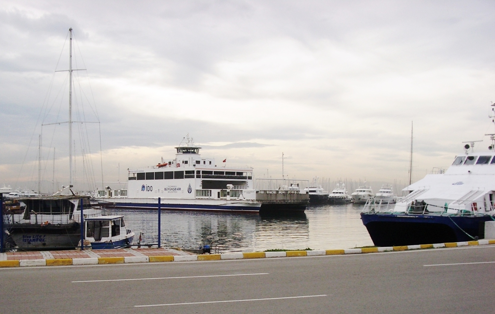 IDO, Pendik (Istanbul)